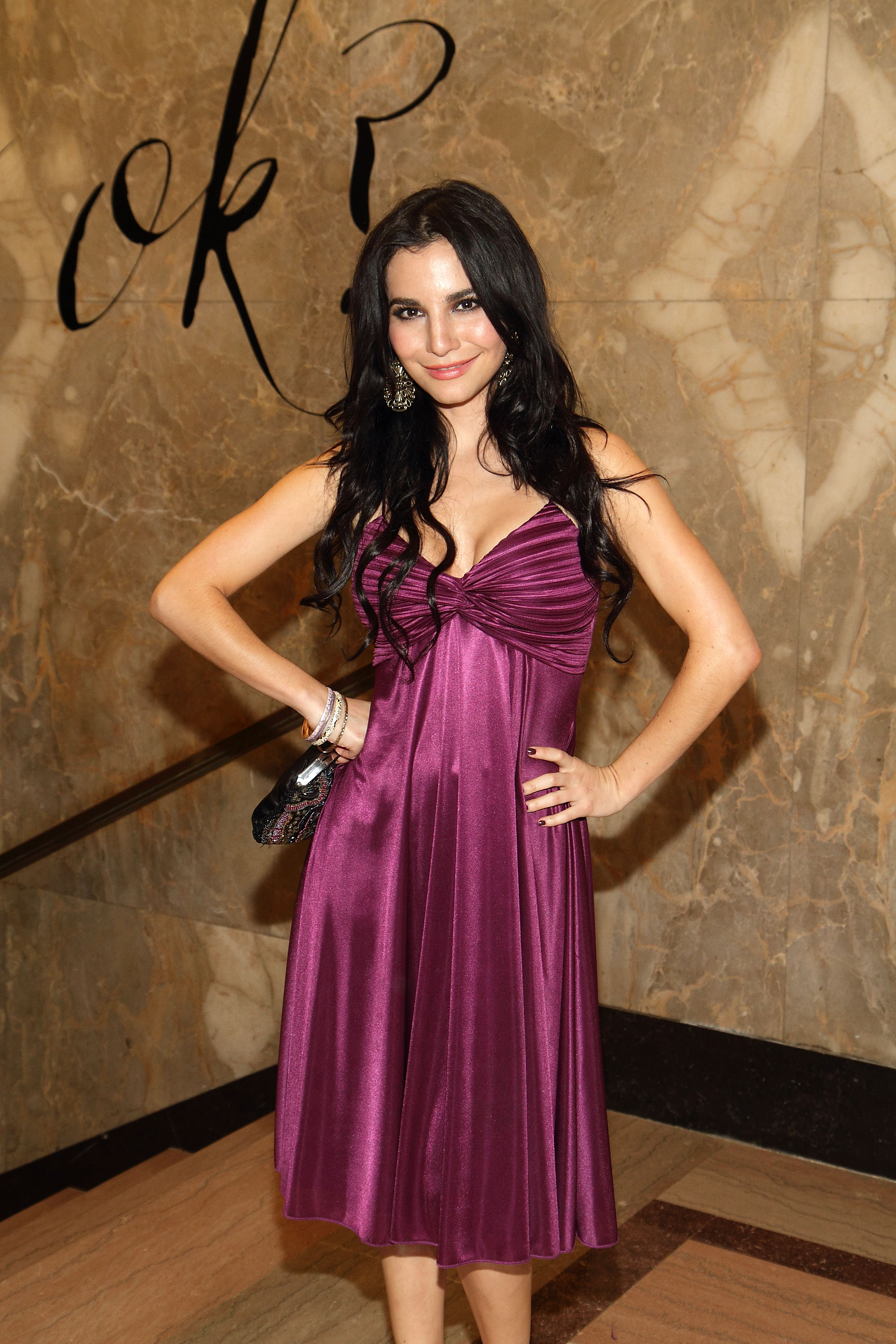 Actress Martha Higareda at the 2012 Miami International Film Festival XO Cafe Noir Opening Night Party Friday, March 2, 2012 at the Historic Alfred I. Dupont Building